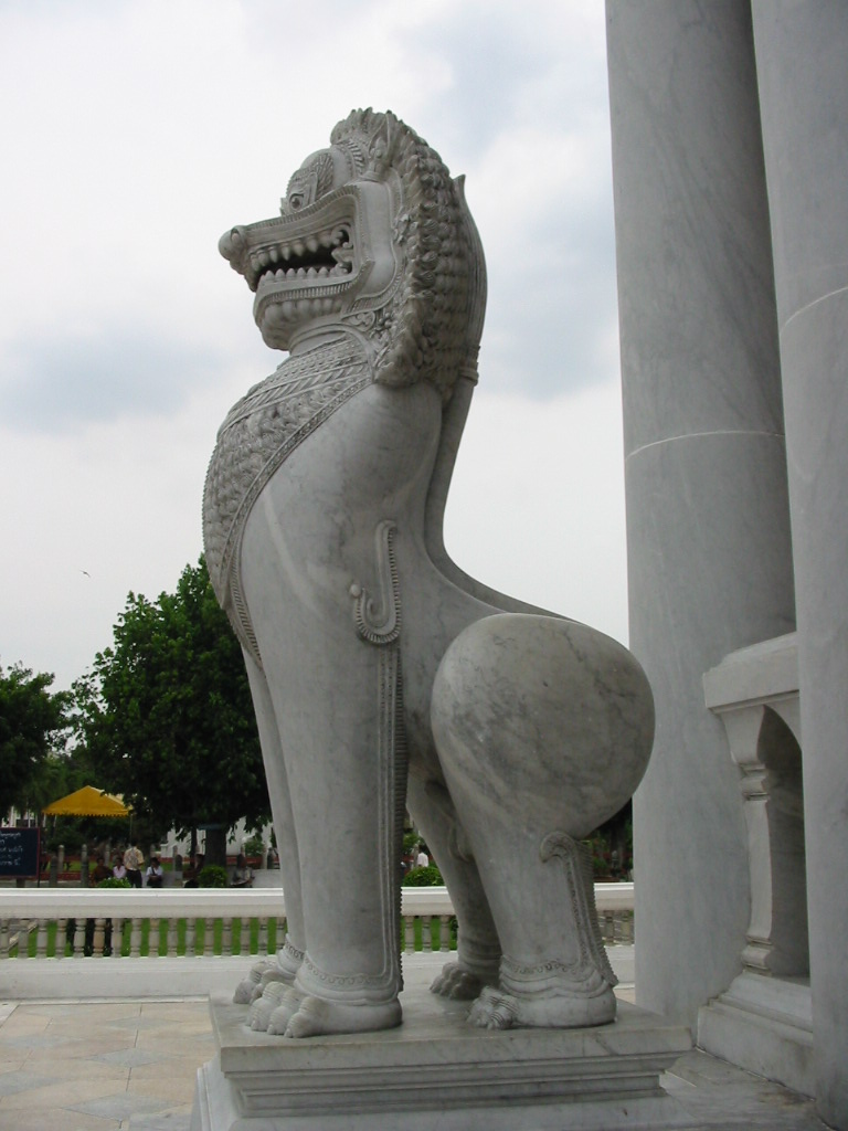 Marble Lion statue at Wat Benchamabophit (Marble Temple), a Buddhist temple in Bangkok, Thailand.